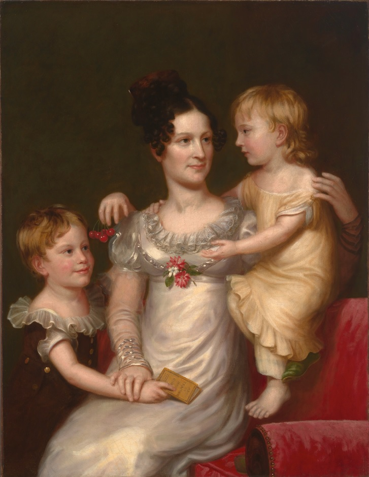 Sarah Weston Seaton with Her Children Augstine and Julia / Charles Bird King / c. 1815 / National Portrait Gallery, Smithsonian Institution / Bequest of Armida B. Colt